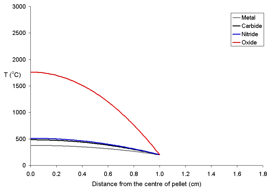 Nuclear fuel temp calcs